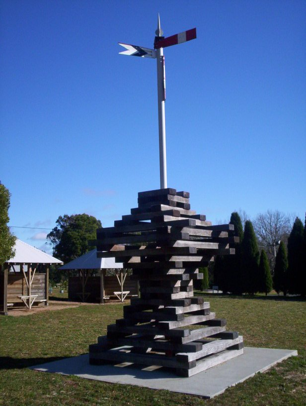 "Up the Line" memorial to workers on the Unanderra-Moss Vale railway, 2004. Designed by Bert Flugelman. In the town of Robertson, Australia.